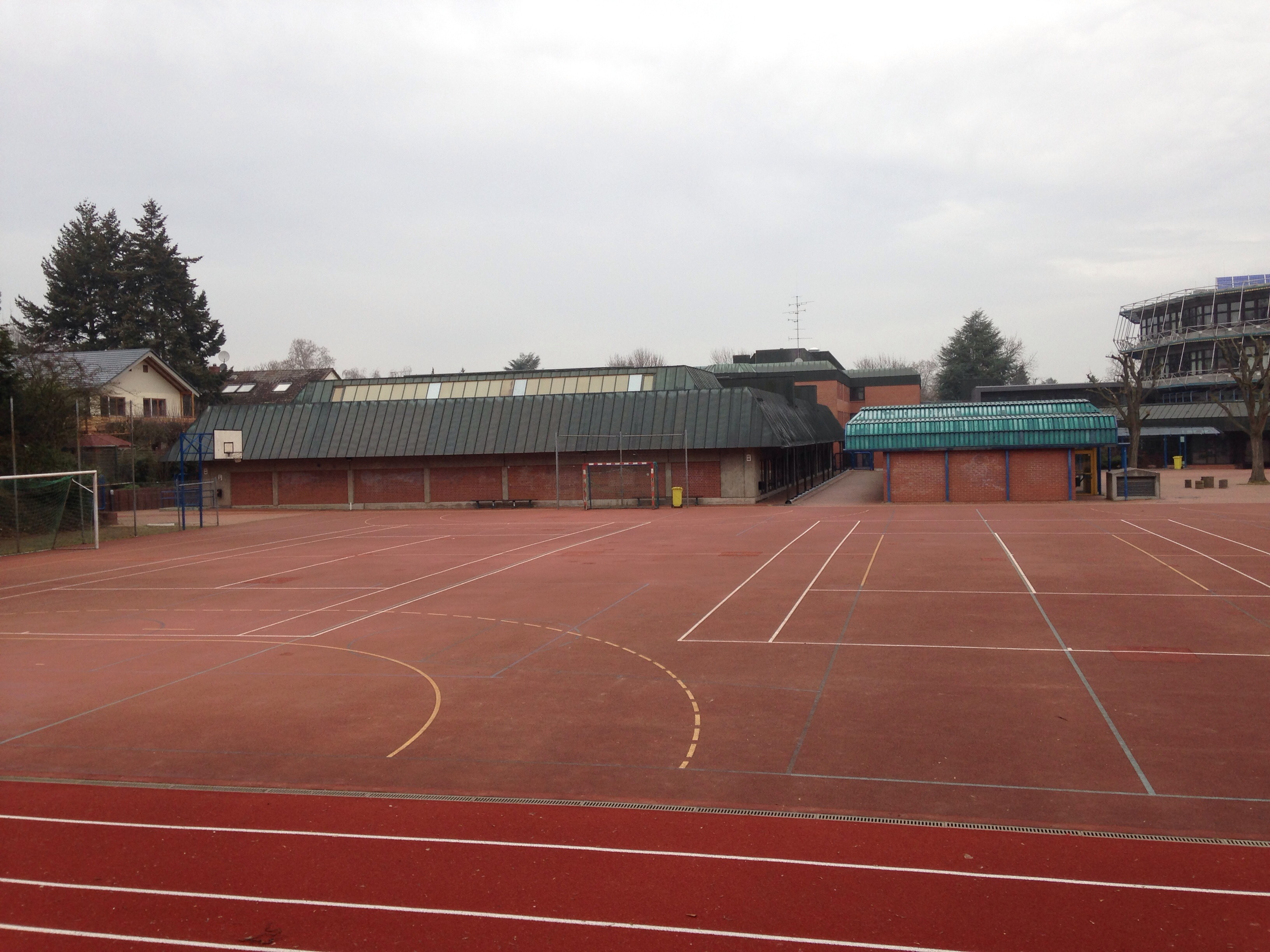 ASC Theresianum Mainz Sporthalle